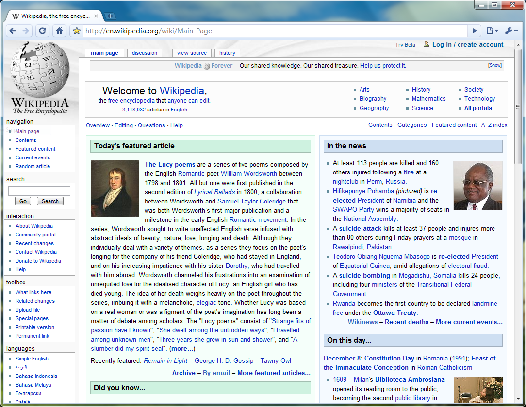 Screenshot of Chromium build 33975 (4.0.266.0[1])